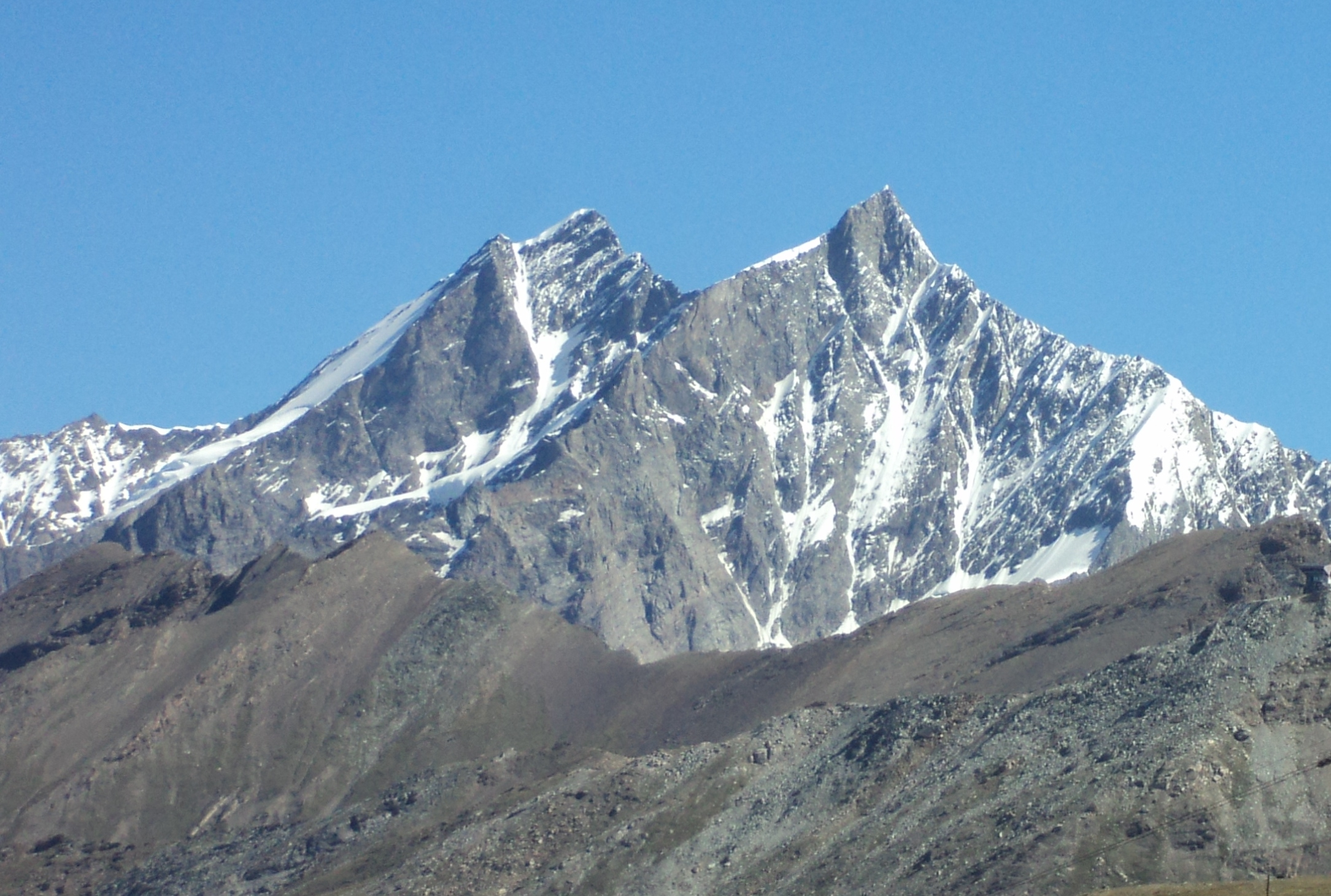 Dom and Täschhorn from Gornergratbahn